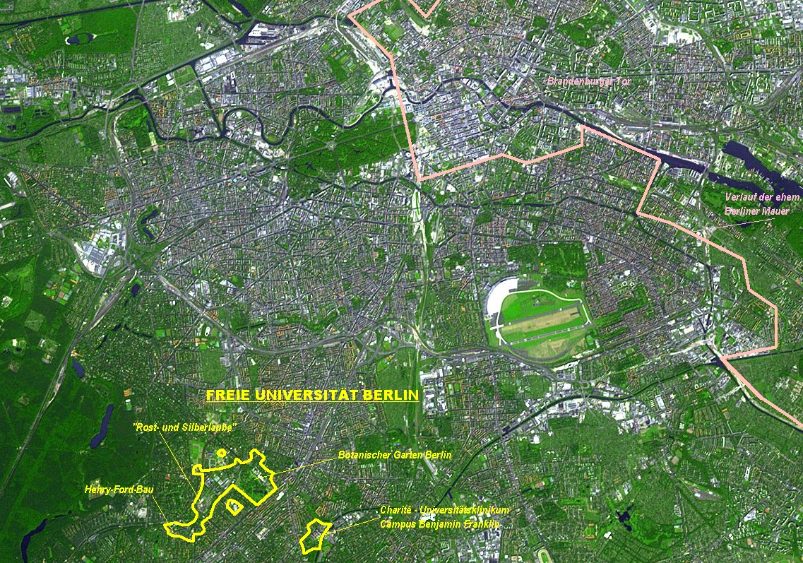 Aerial photo of Berlin from 2002, the yellow markings surround the campus of the Free University of Berlin. Clearly visible are the botanical gardens and the Benjamin Franklin Hospital. (For a better orientation the former course of the Berlin Wall has been marked in light red.)